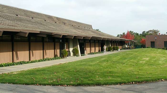 A typically pleasant day at the campus of Foothill College in Los Altos Hills. Note the unique architecture of the campus buildings.